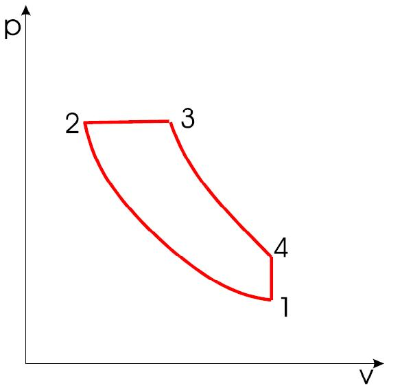 Diagram p-v (pressure-specific volume)of a Diesel cycle.